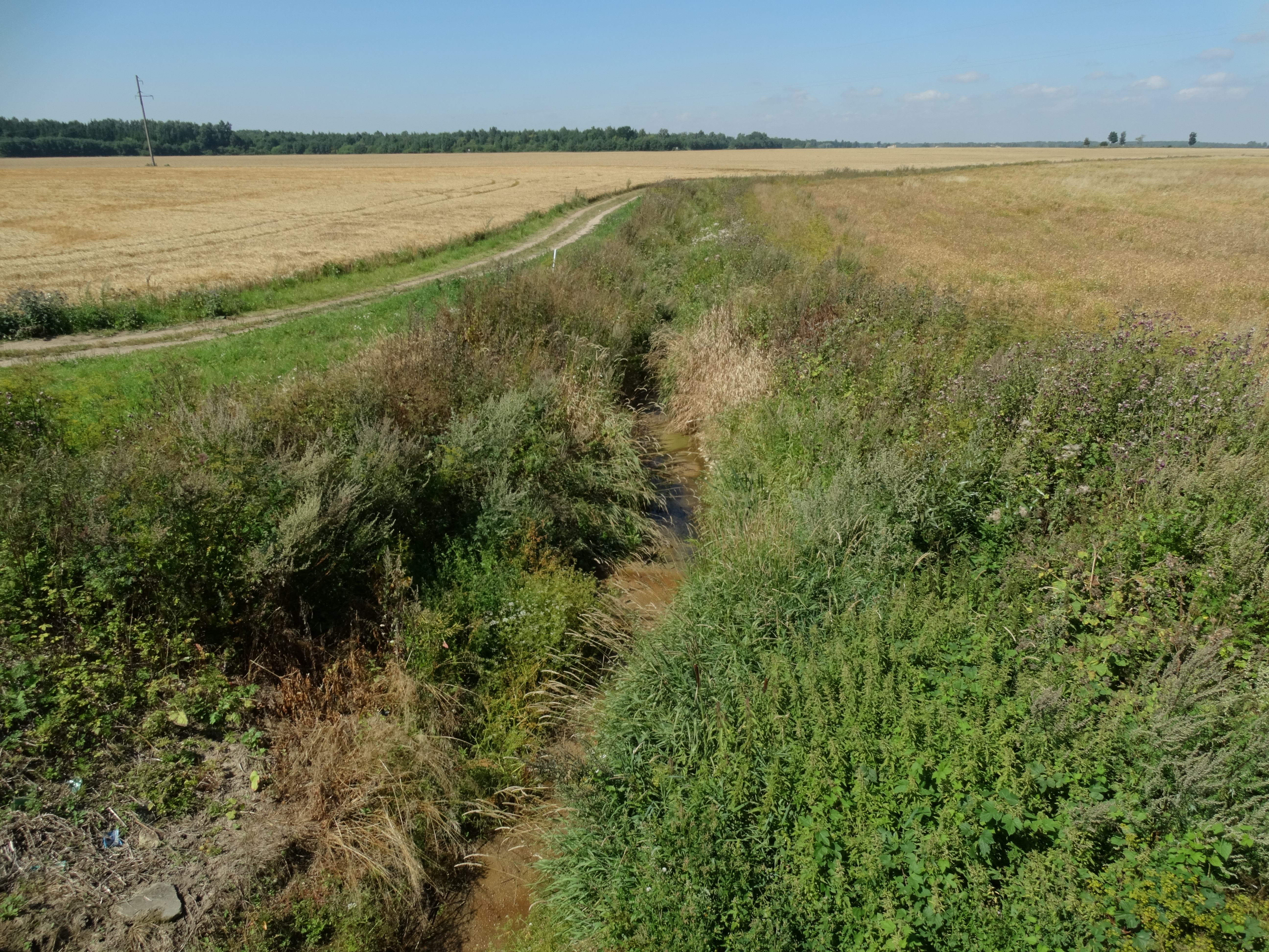 Ašvinė river near Bariūnai, Joniškis District, Lithuania